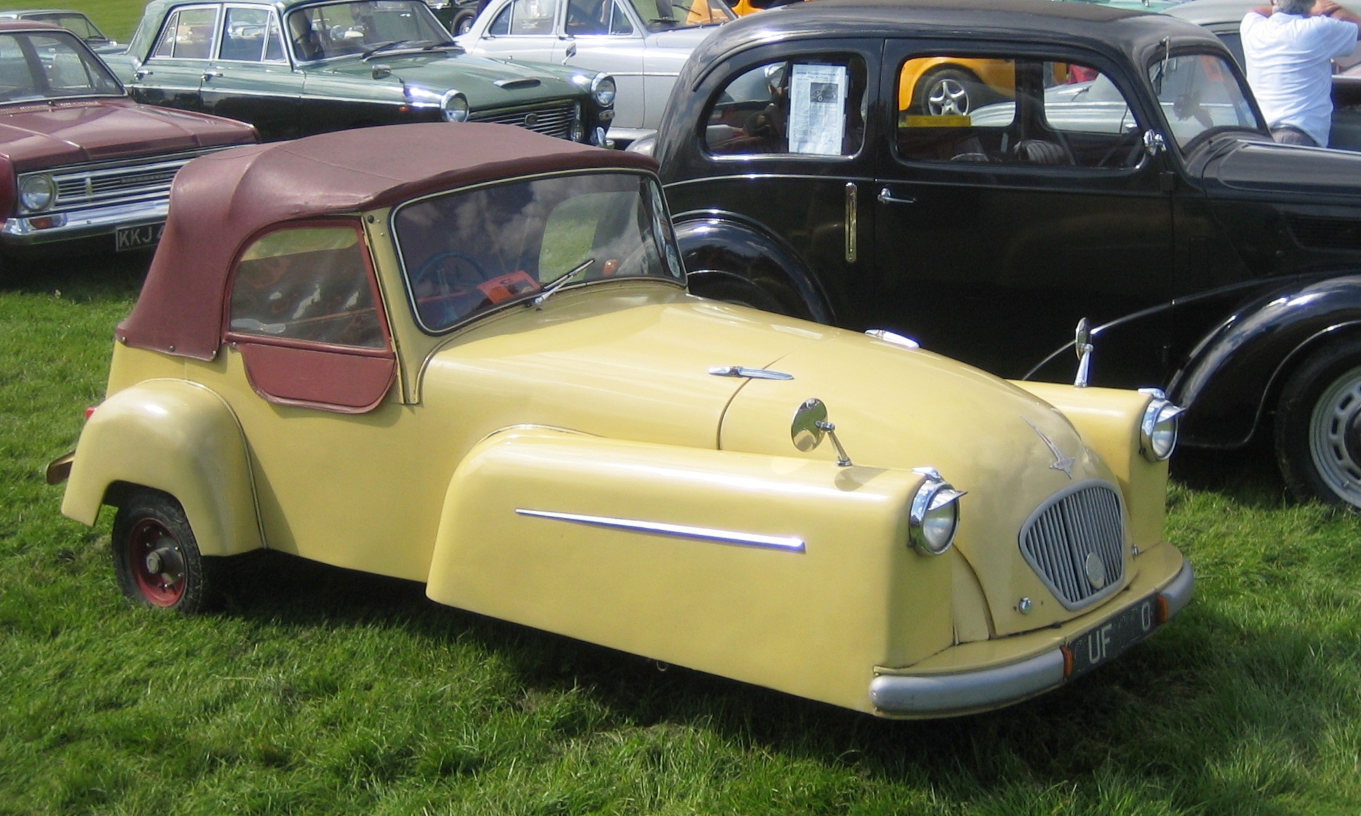 Bond Minicar three wheeler ca 1956 at Classic Car Show in Hertfordshire